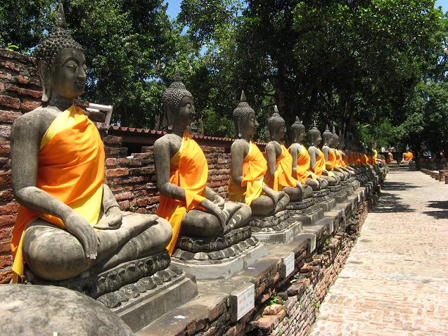 Wat Yai Chai Mongkon, Ayutthaya, Thailand.